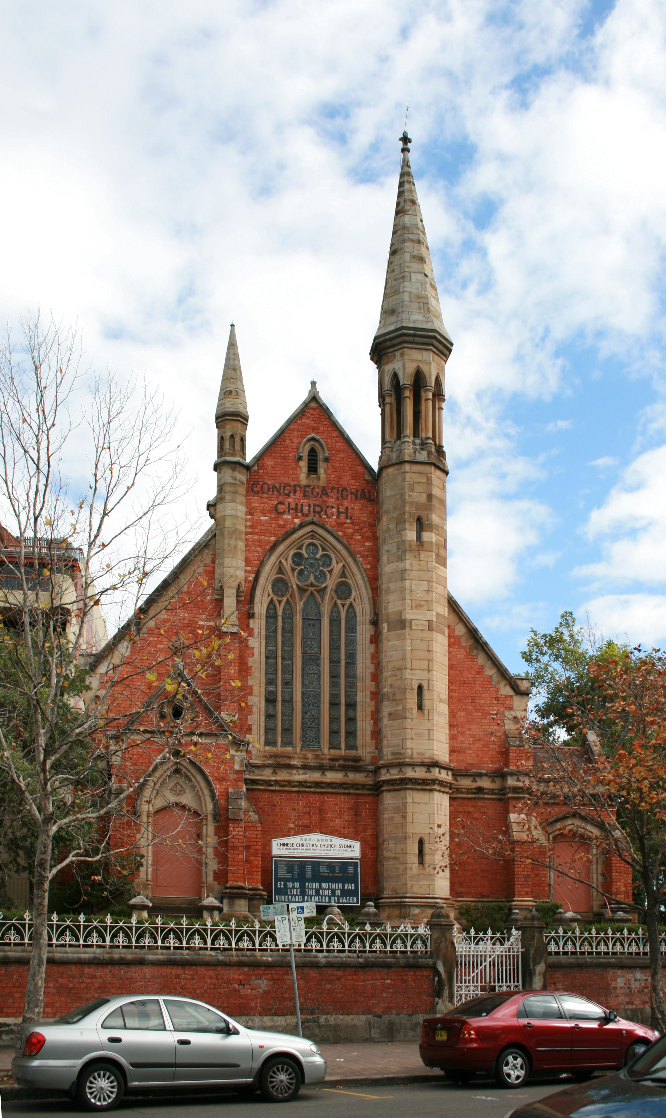 Chinese Christian Church Sydney, located on Alfred St, Milsons Point, New South Wales (NSW), Australia.